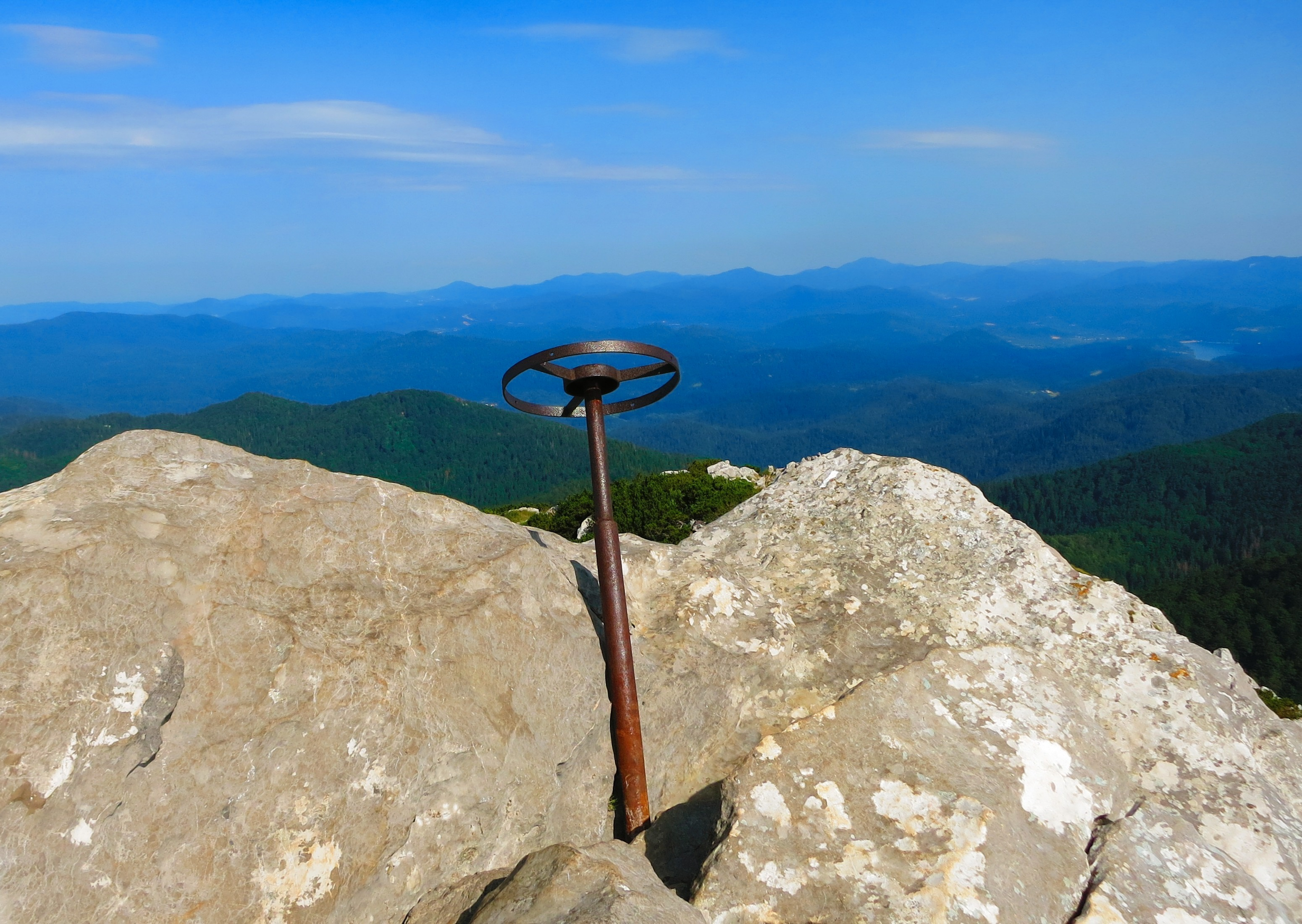 A view from peak of Veliki Risnjak (1528 m) to South. (Risnjak National Park, Gorski Kotar, Croatia)